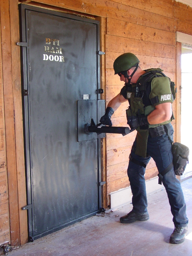 Owner of image. Took image. Author is VP of Breaching Technologies Inc.